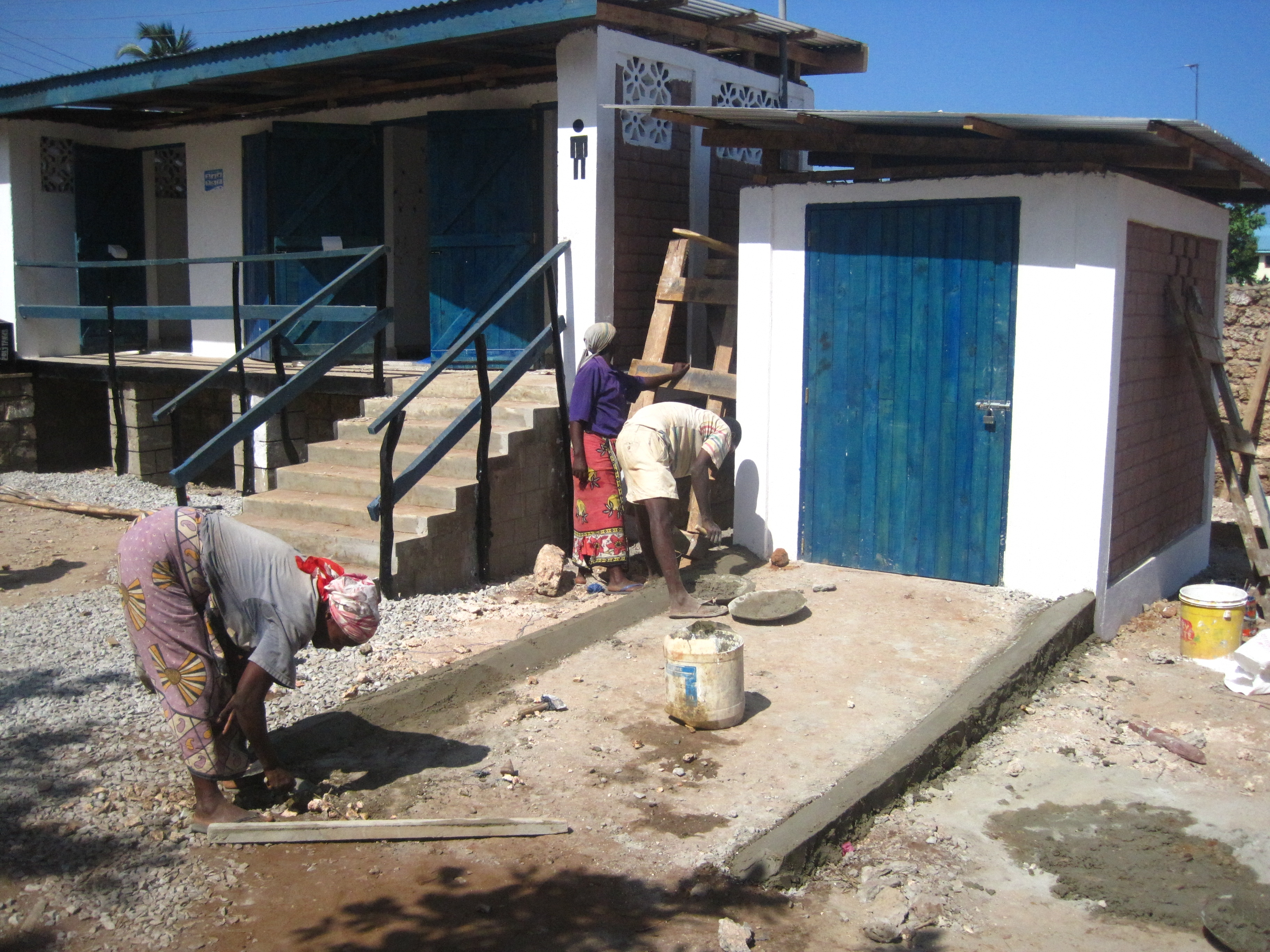 Construction of the ramp of a disability-friendly toilet, school at Ukunda, Kenya.